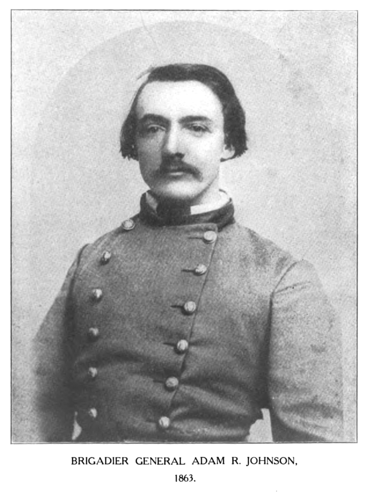 Frontispiece from William J. Davis, ed. The Partisan Rangers of the Confederate States Army: Memoirs of General Adam R. Johnson. Louisville, 1904. Note: Image of Adam Rankin Johnson, from my granfather's files